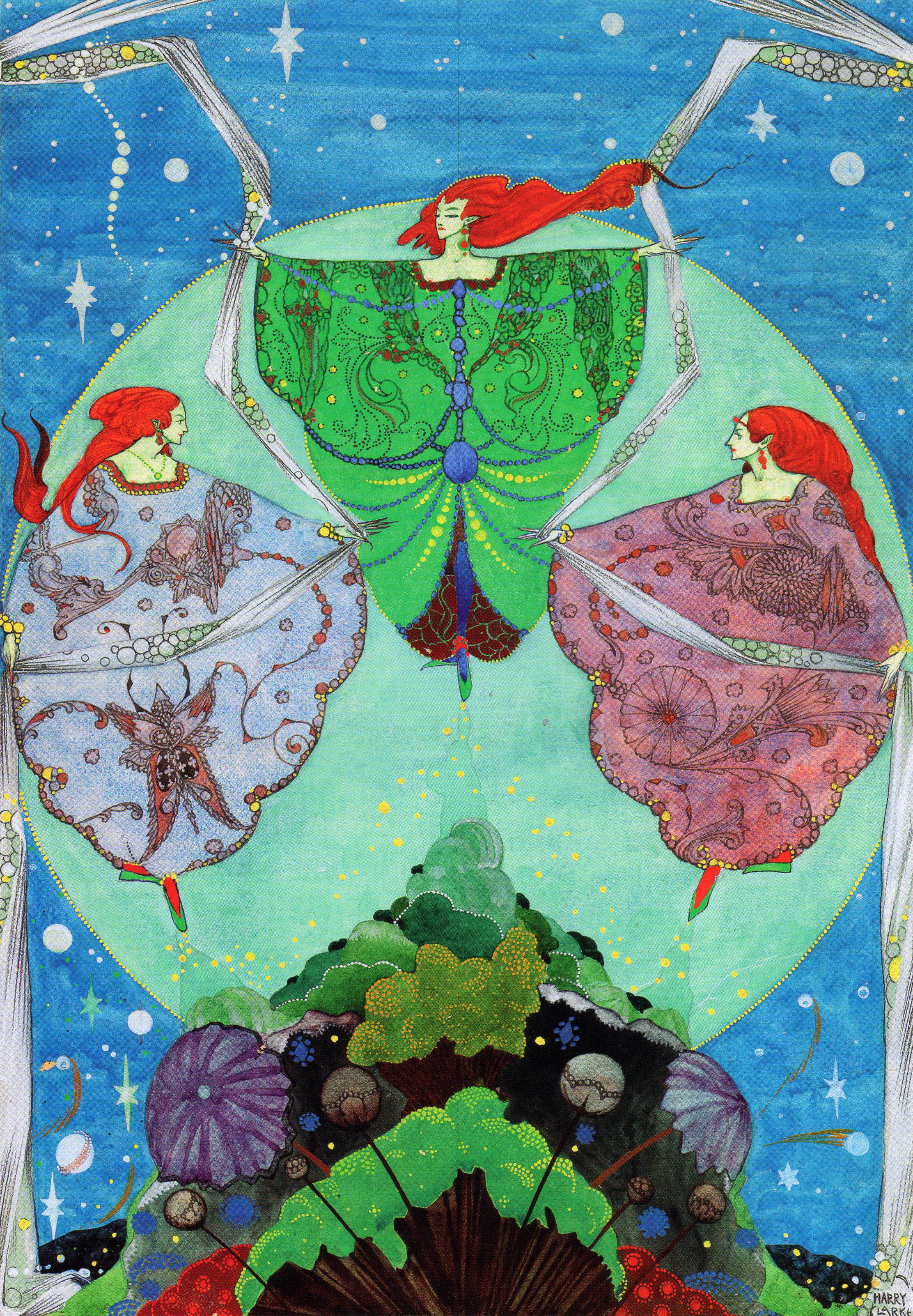 "They danced with shawls which were woven of mist and moonshine". From "The Elf Hill", from Fairy Tales by Hans Christian Andersen (1916), illustrated by Harry Clarke.